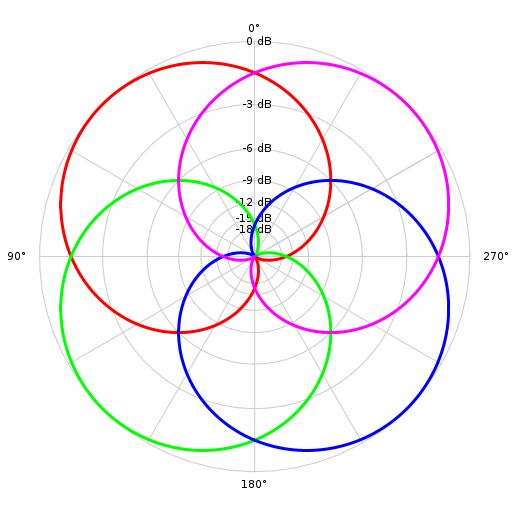 A simplified single-band in-phase B-format decoder for a square loudspeaker layout. This is a naive example which does not fulfill the psychoacoustic criteria for Ambisonic decoding. Other information See File:Virtual Microphone Animation.gif for the gnuplot source used to produce this and similar plots.